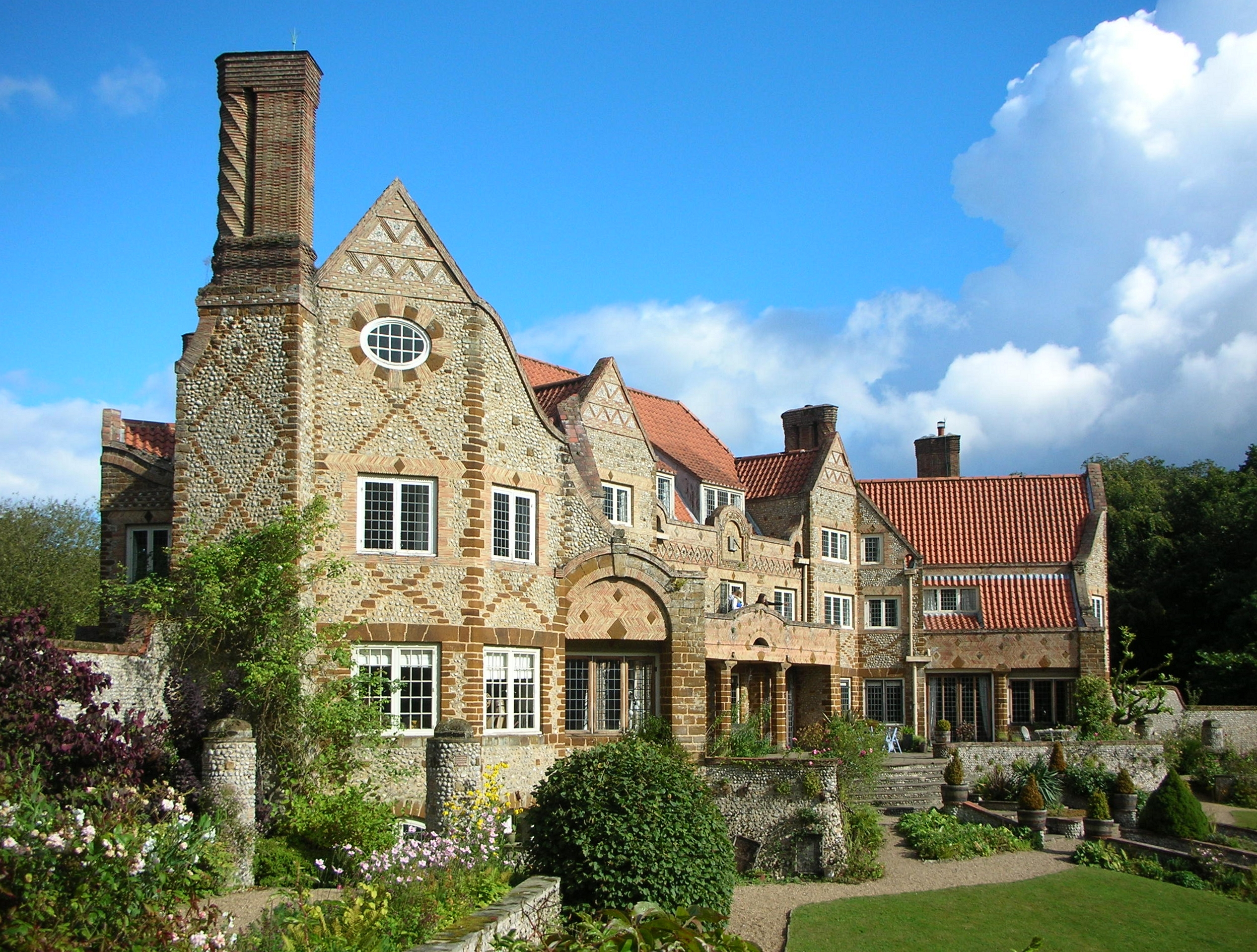 Voewood is an English country house situated in High Kelling, Norfolk, also known as Home Place, Kelling, Thonfield Hall and Kelling Place. The house and gardens were designed by Edward Schroeder Prior in the style inspired by the Arts and Crafts movement and built between 1903-1905.